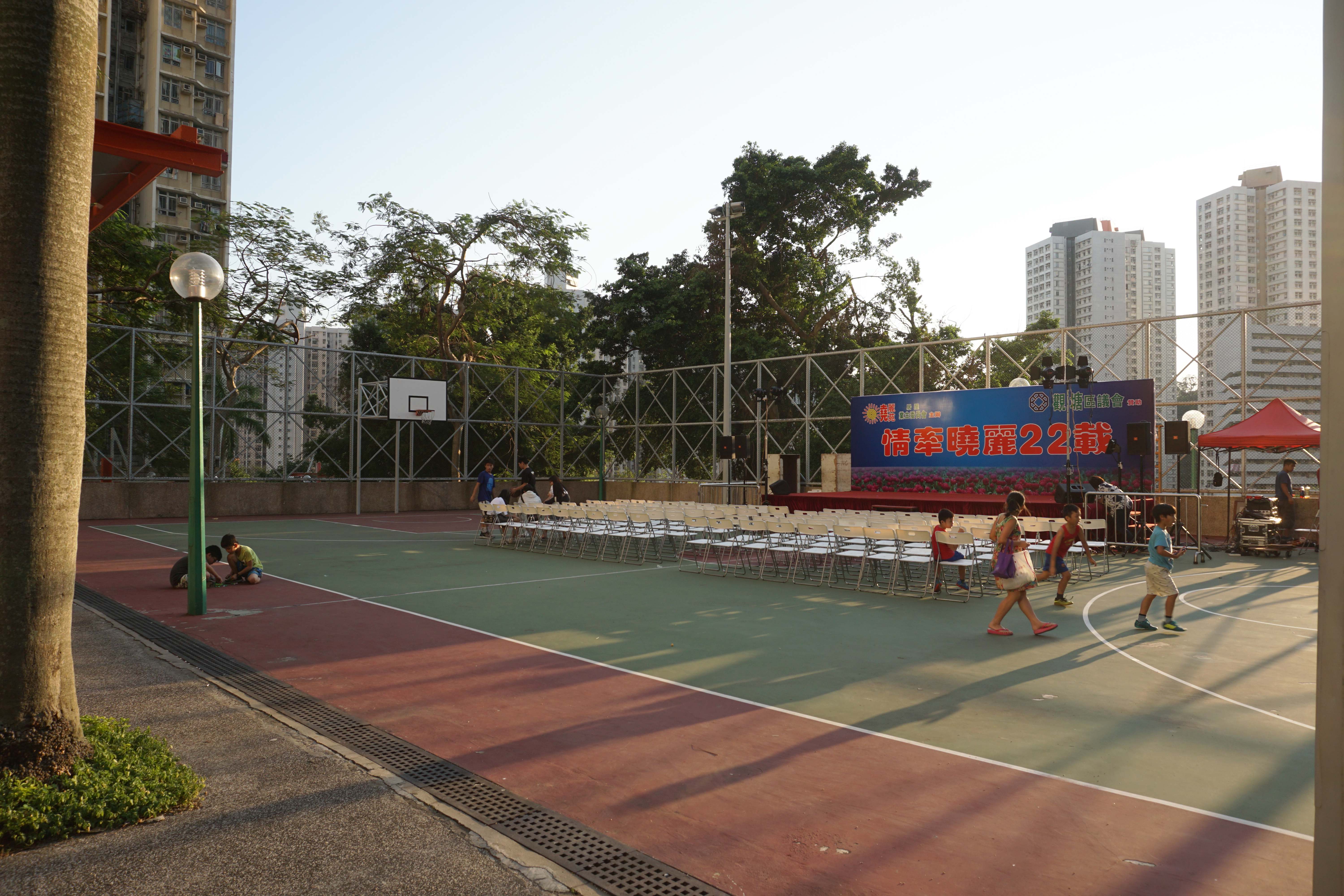 Hiu Lai Court in Sau Mau Ping, Hong Kong.